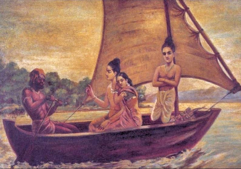 Sree Rama along with Sita and Lakshmana crossing river Sarayu